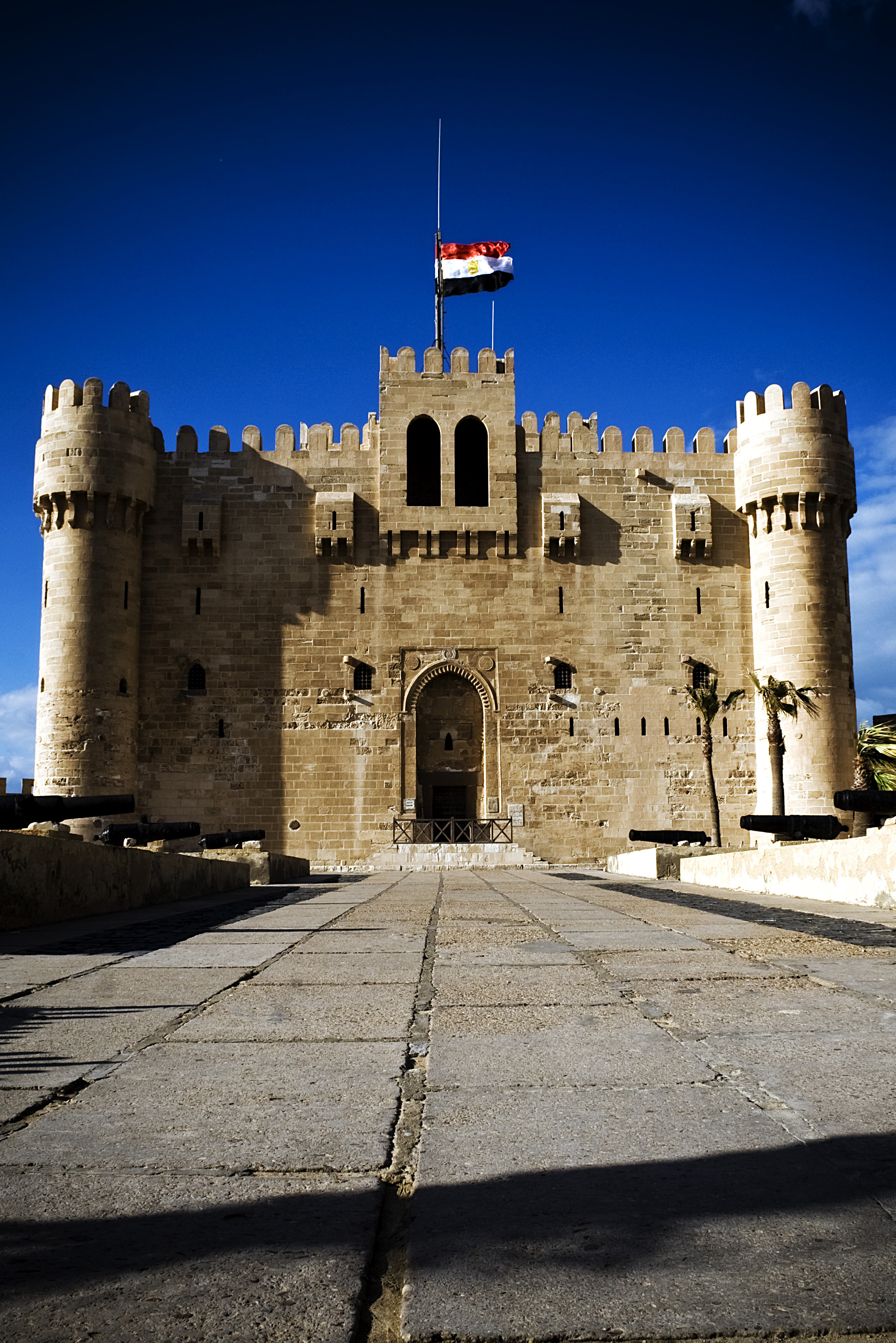 تقع هذه القلعة في نهاية جزيرة فاروس بأقصى غرب الإسكندرية. وشيدت في مكان منار الإسكندرية القديم الذي تهدم سنة 702 هـ اثر الزلزال المدمر الذي حدث في عهد السلطان الناصر محمد بن قلاوون. وقد بدأ السلطان الأشرف أبو النصر قايتباي بناء هذه القلعة في سنة 882 هـ وانتهى من بنائها سنة 884 هـ. وكان سبب اهتمامه بالأسكندرية كثرة التهديدات المباشرة لمصر من قبل الدولة العثمانية والتي هددت المنطقة العربية بأسرها وقد اهتم السلطان المملوكي قنصوه الغوري بالقلعة فزاد من جاميتها وشحنها بالسلاح.